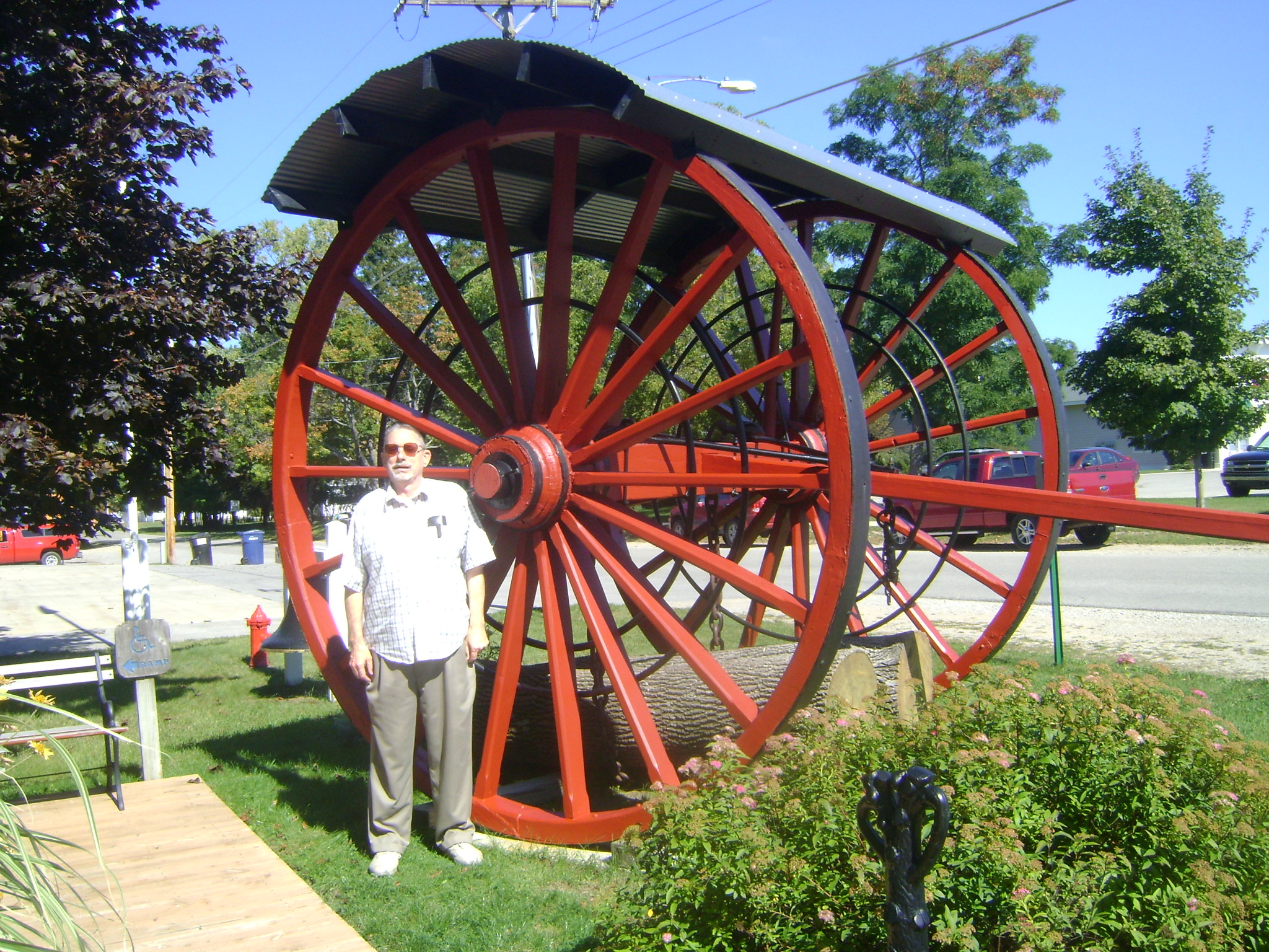 Michigan logging wheels. Comparison of a 6 foot man to 11 foot logging wheels.